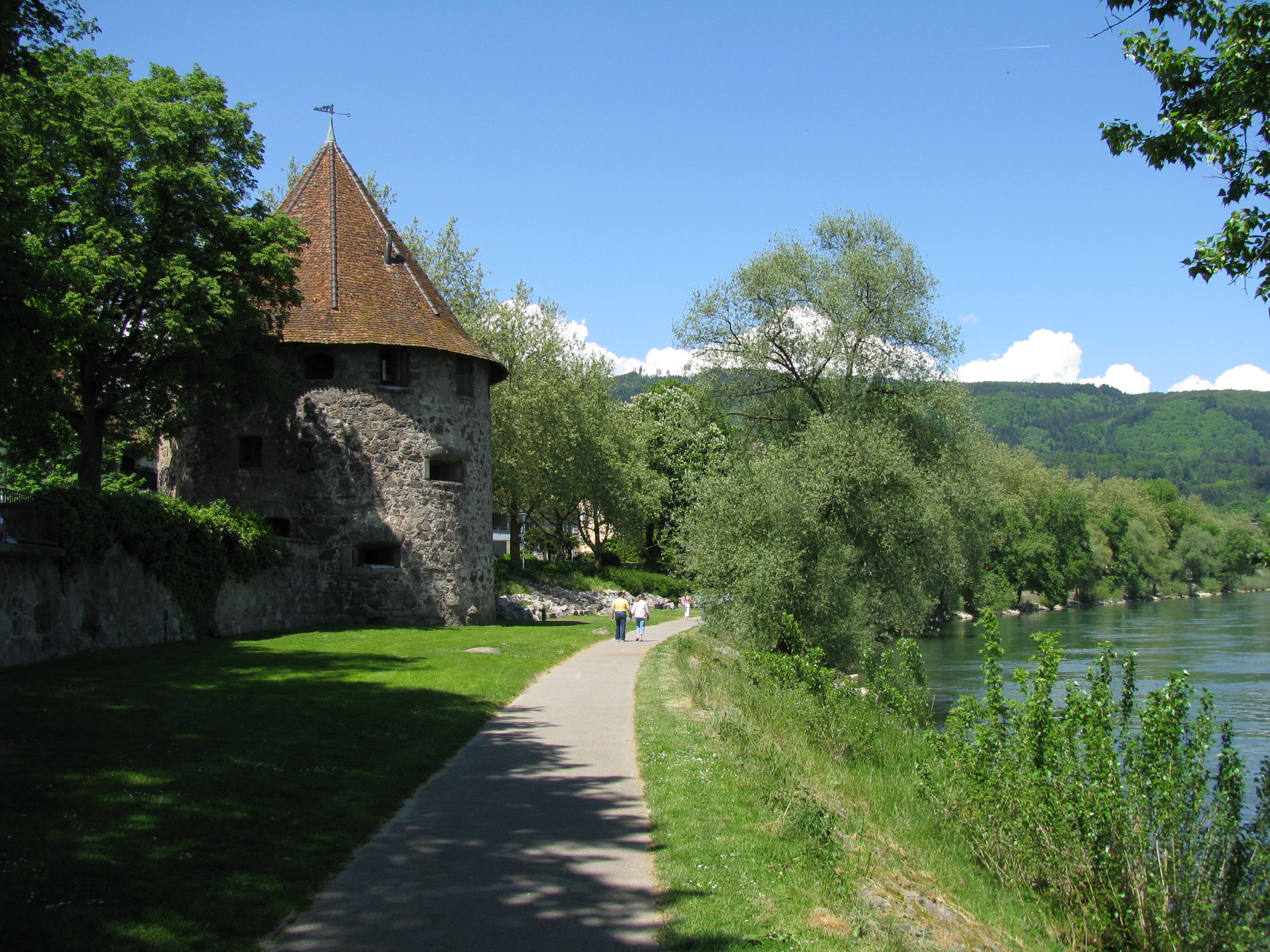 The «Gallusturm» in Bad Säckingen